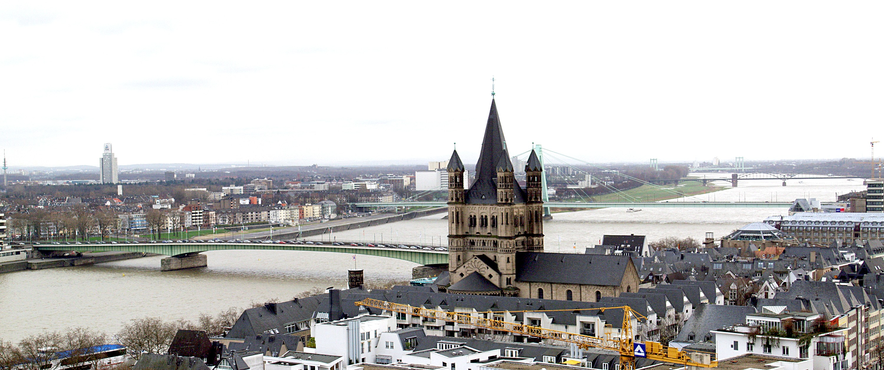 Deutzer Brücke, Martinsviertel und Groß St. Martin, Cologne, Germany